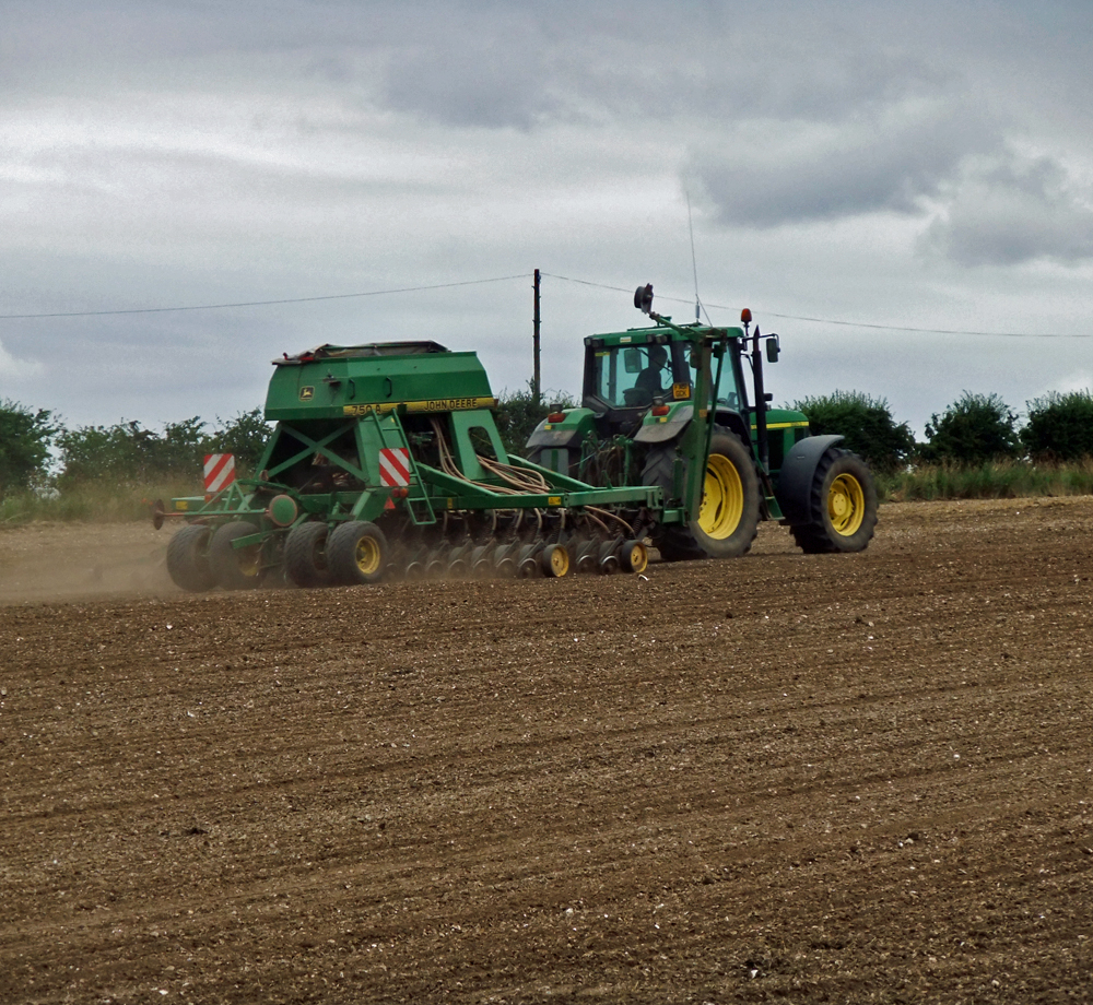 Seed Drilling near Bonby Top Farm, near to Bonby, North Lincolnshire, Great Britain. The drill is a John Deere 750 A. I don't know what was being sown.